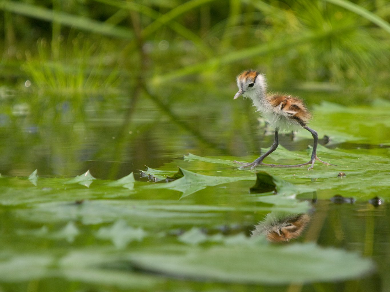 African Jacana (Actophilornis africana) chick in a zoo in Japan.